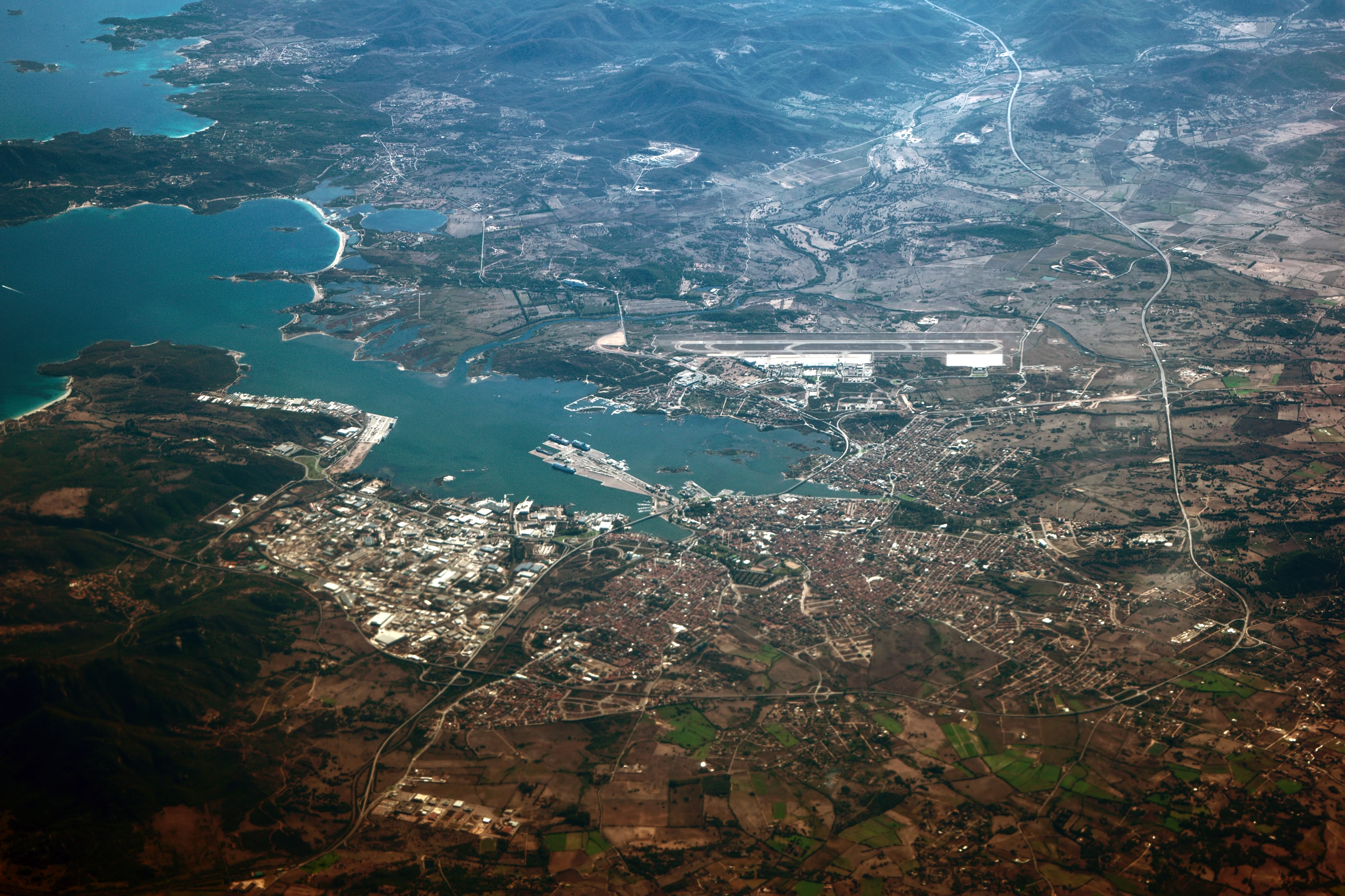 Aerial view of Olbia, with the airport and the harbour visible.